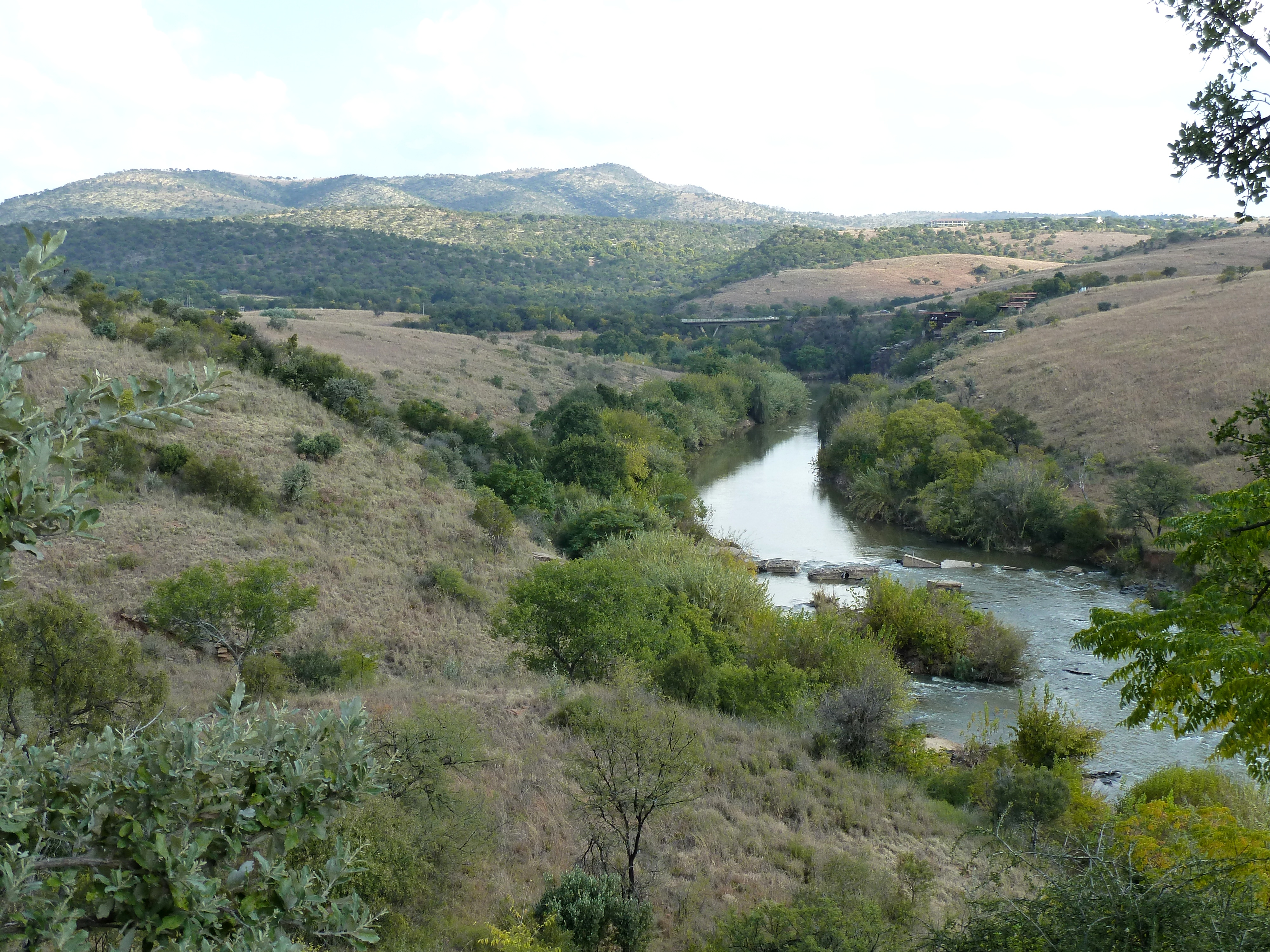 Crocodile river, seen from the Phalandingwe nature trail, Pelindaba